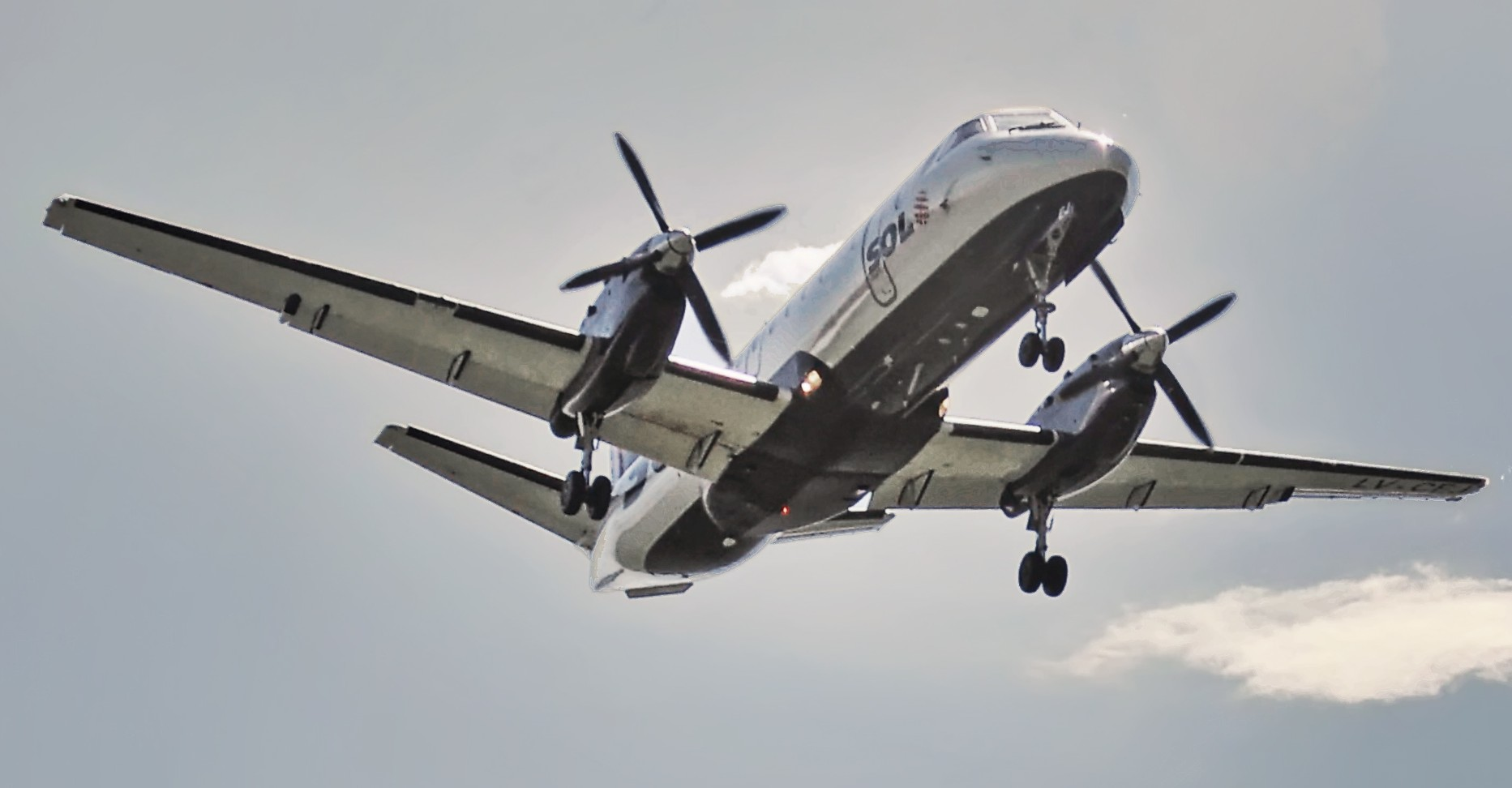 Saab 340 LV-CEJ approaching to SAZM Astor Piazzolla INTL, Mar del Plata, Argentina.